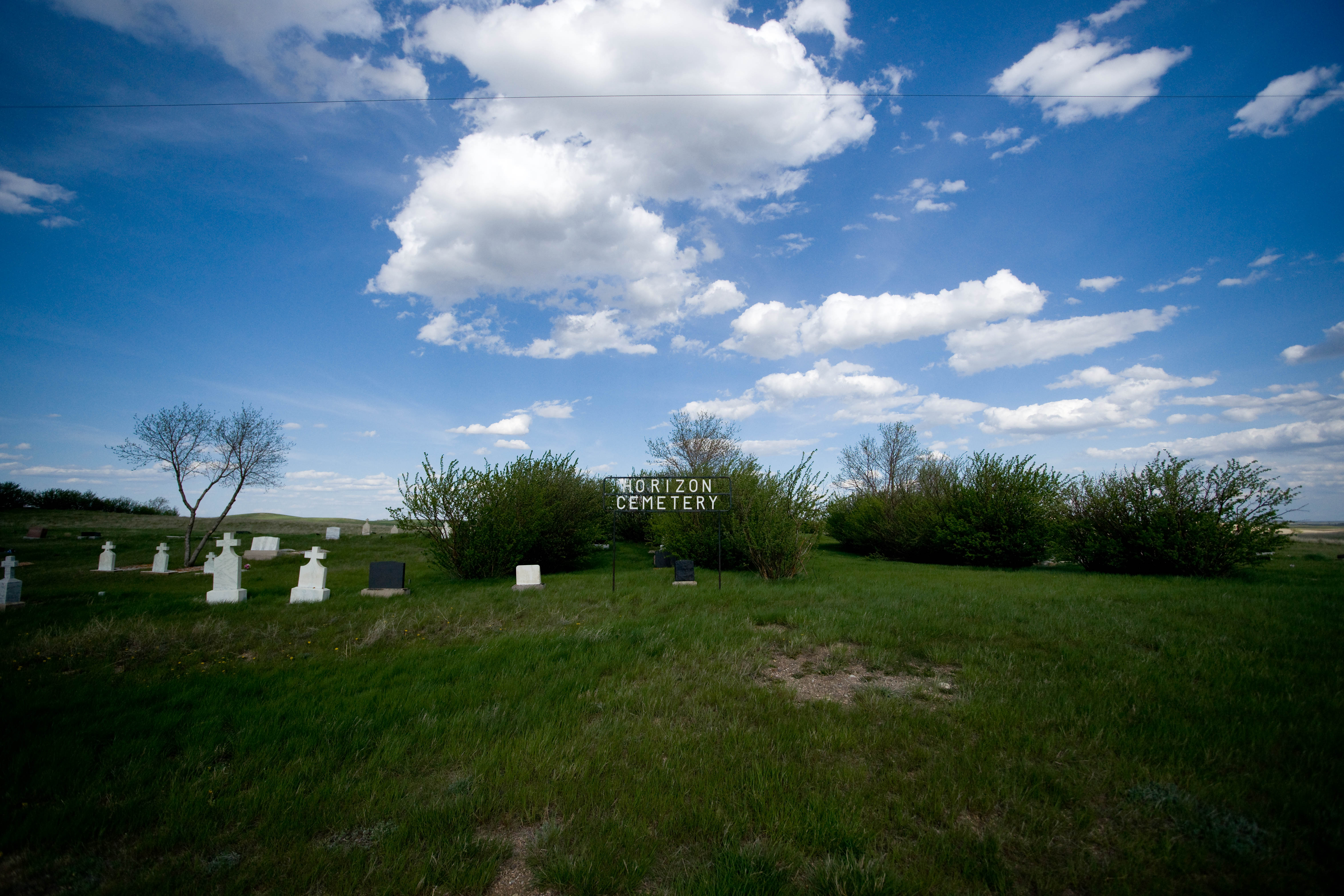 From